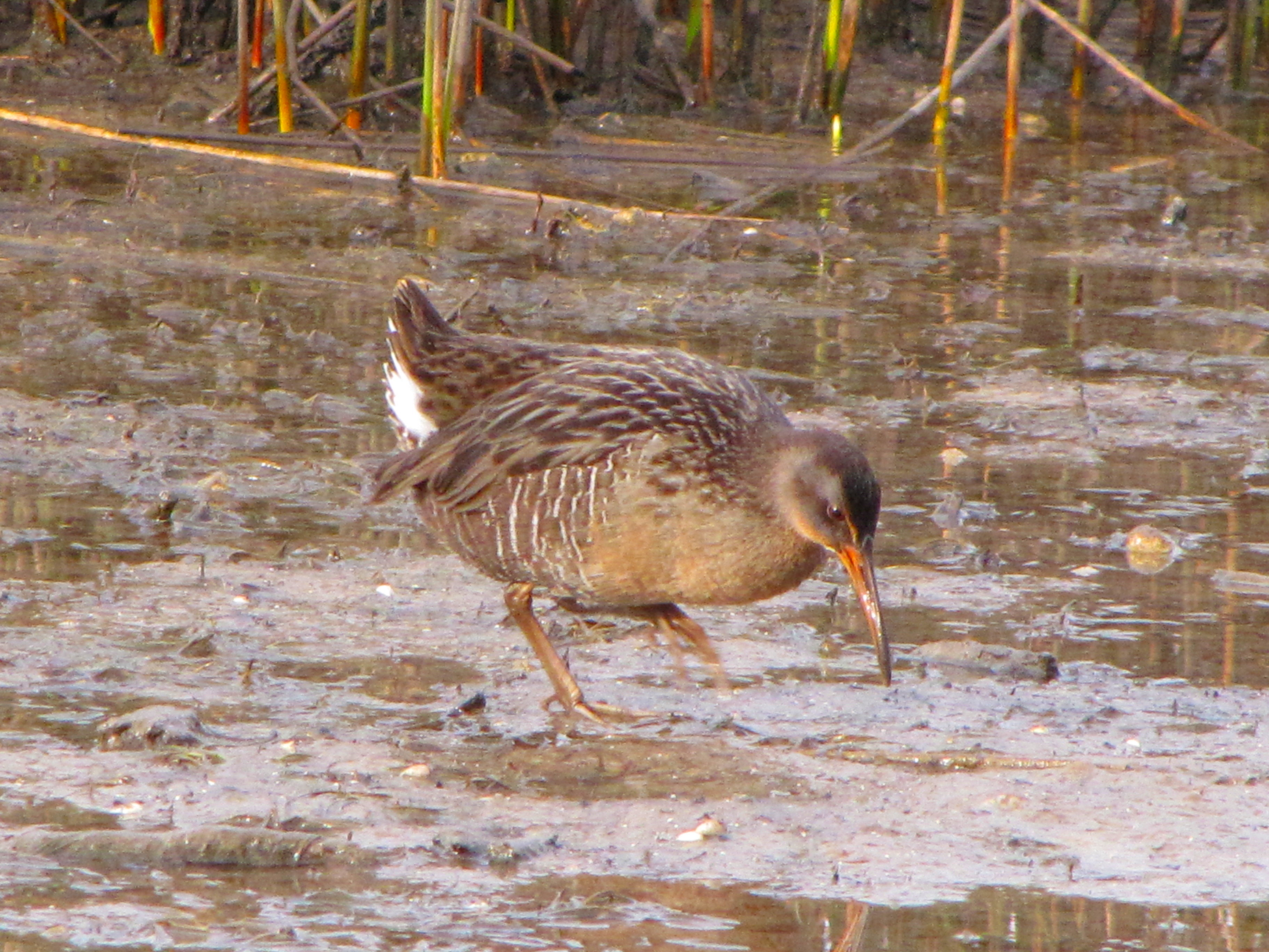 Rallus longirostris Redfish Hole hiking trail Great Florida Birding Trail Crystal River, Citrus County, Florida